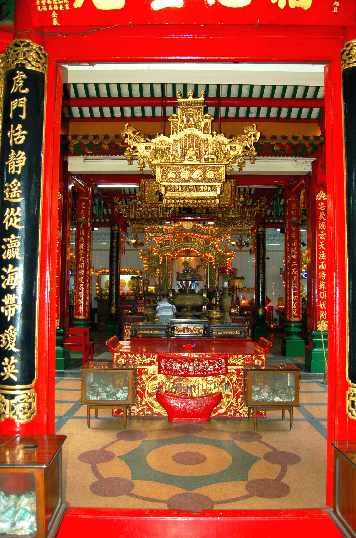 Guanyin Gumiao Temple in Latha Township (Chinatown), Yangon, Myanmar မြန်မာဘာသာ: ရန်ကုန်မြို့ရှိ လသာမြို့နယ် ကွမ်ရင်မယ်တော် တရုတ်ဘုံကျောင်း (ကွမ်ရင်ဂူးမျောင်း